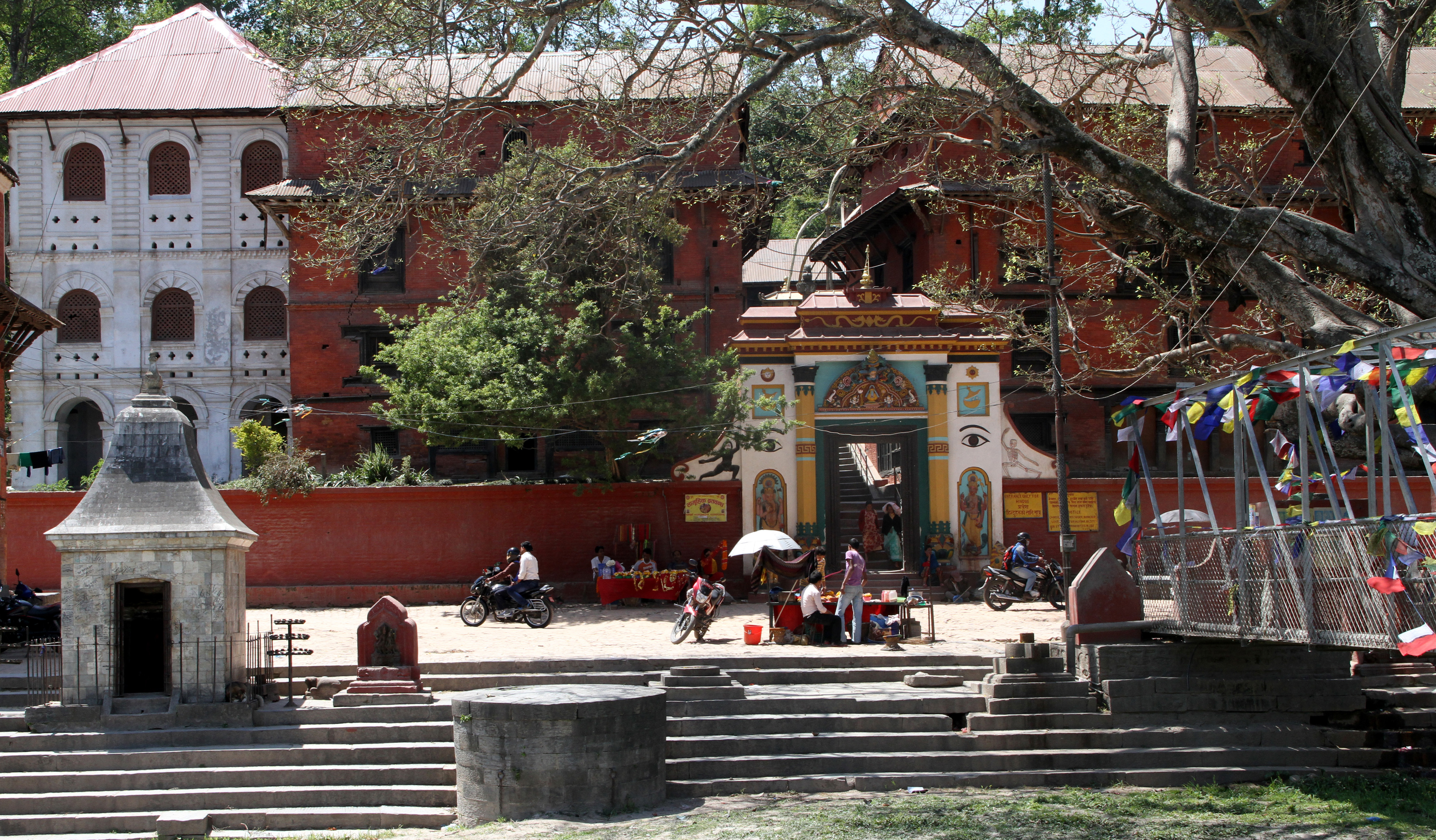 Pashupatinath, upper entrance